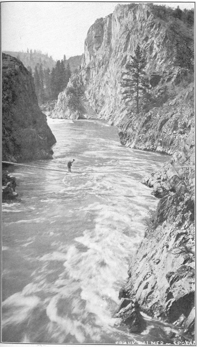 Description: The original caption of this picture reads, "View of Spokane River in Lincoln County, showing possibility of power development." The image appeared in a 1909 publication for the Alaska-Yukon-Pacific Exposition. Size: 403 × 708 pixels. Source